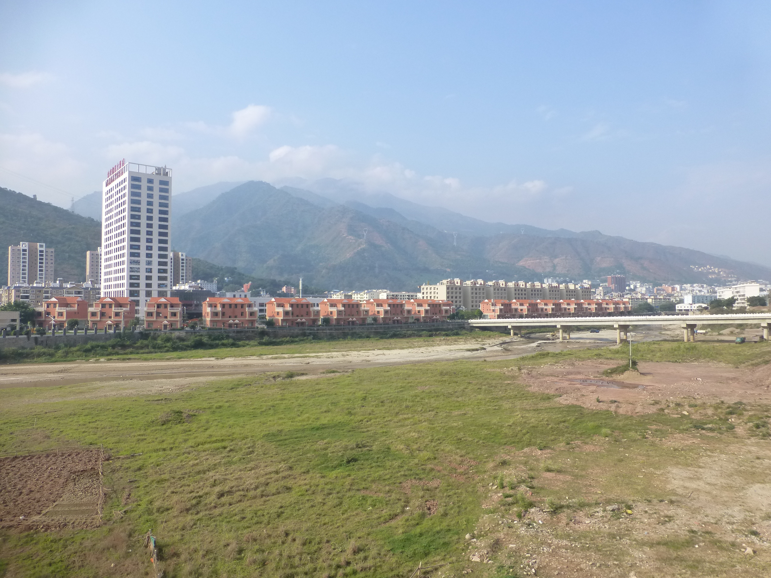 Nansha River in Nansha Town, Yuanyang County, Yunnan